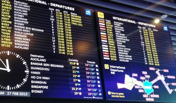 Melbourne Airport T2 large display wall